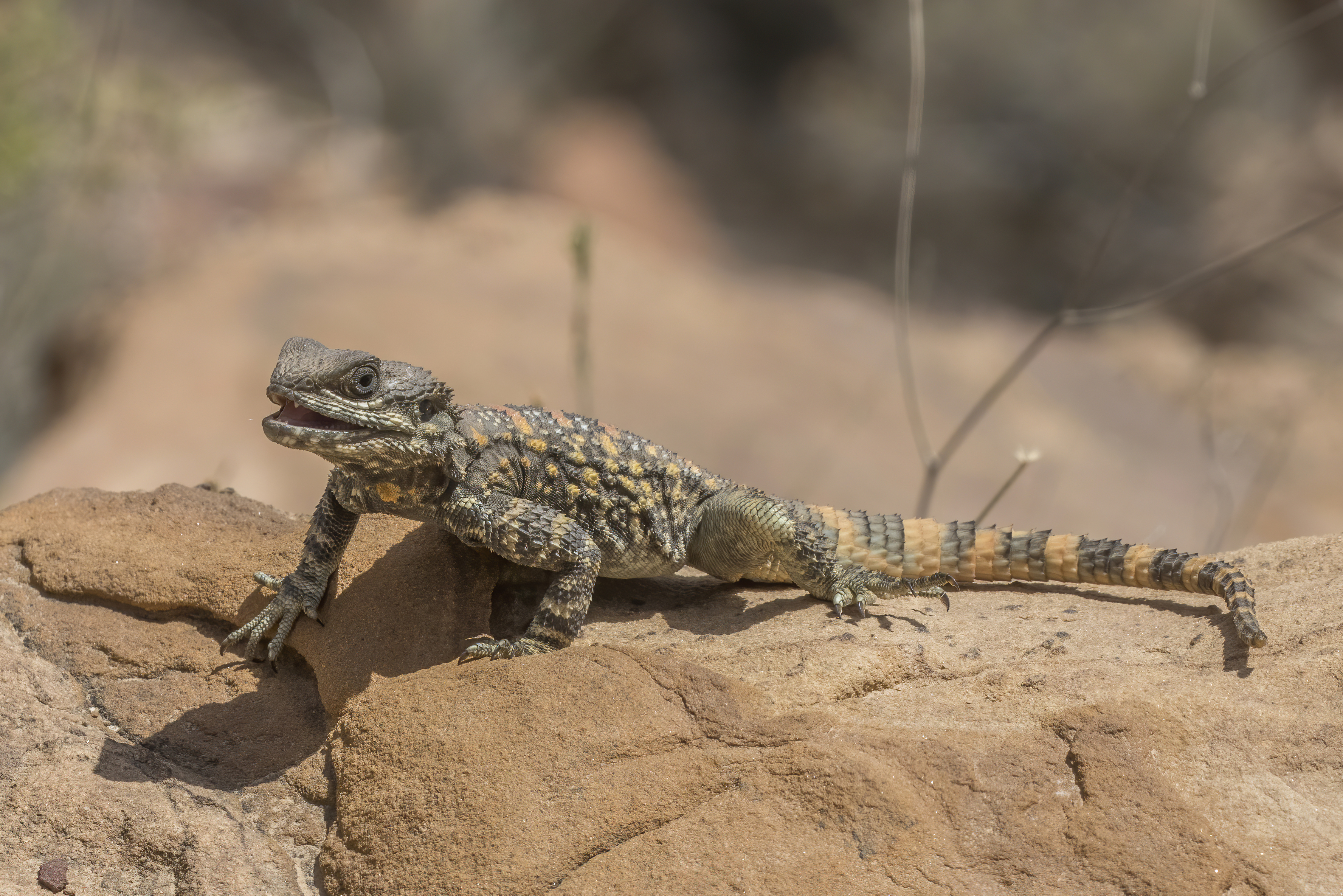 Roughtail rock agama (Stellagama stellio brachydactyla), Dana Biosphere Reserve, Jordan